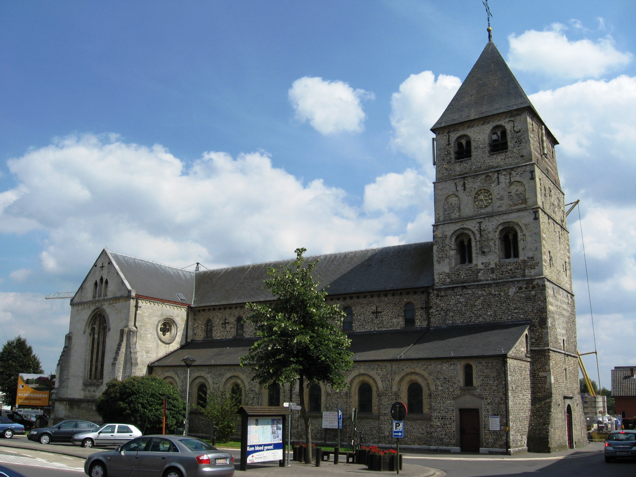 Church of Saint Peter in Kortessem, Limburg, Belgium